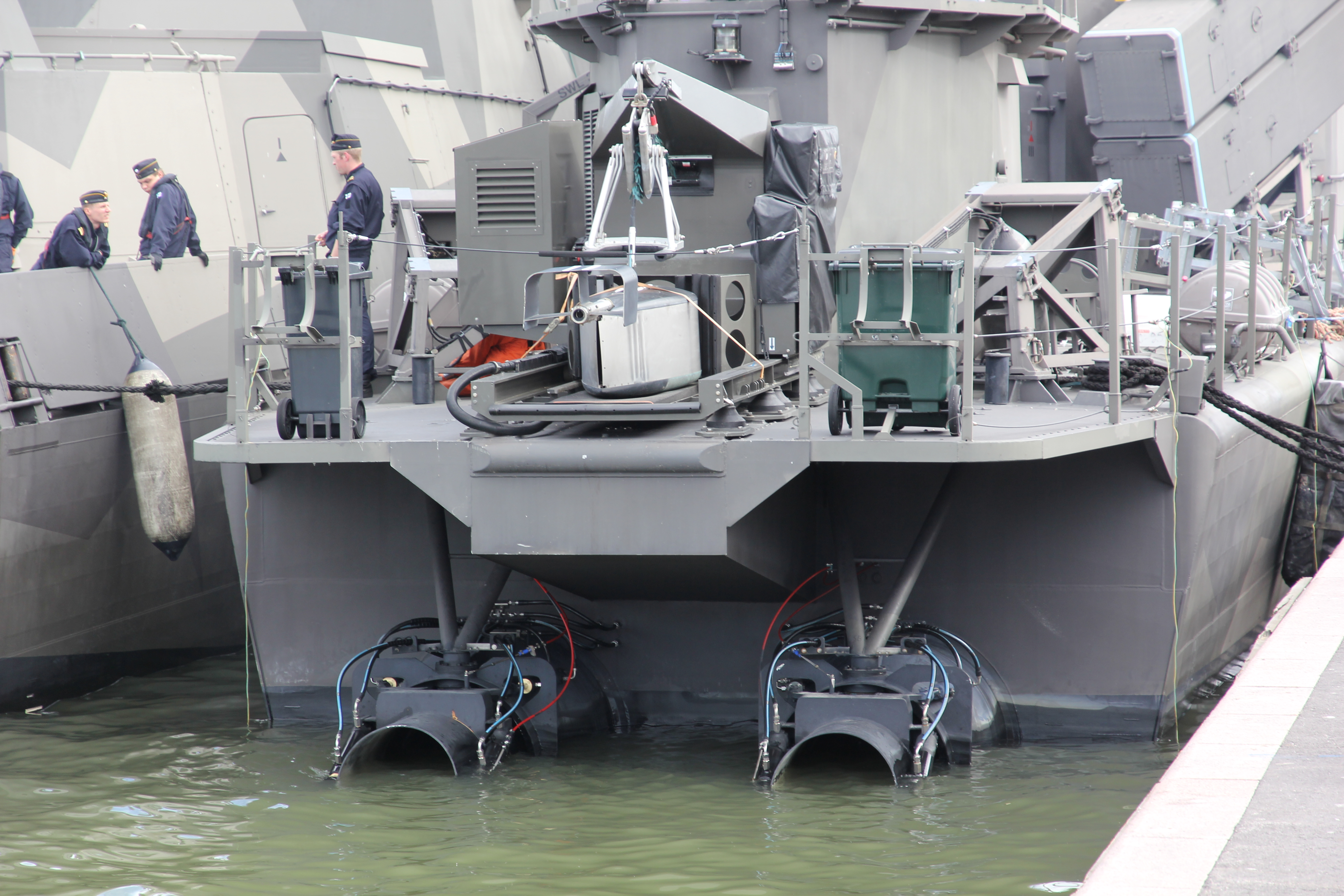 Riva Calzoni water jets and the Kongsberg ST2400 active variable depth sonar of the missile boat Naantali, photographed in Helsinki South harbour during Finnish Navy 2015 anniversary.